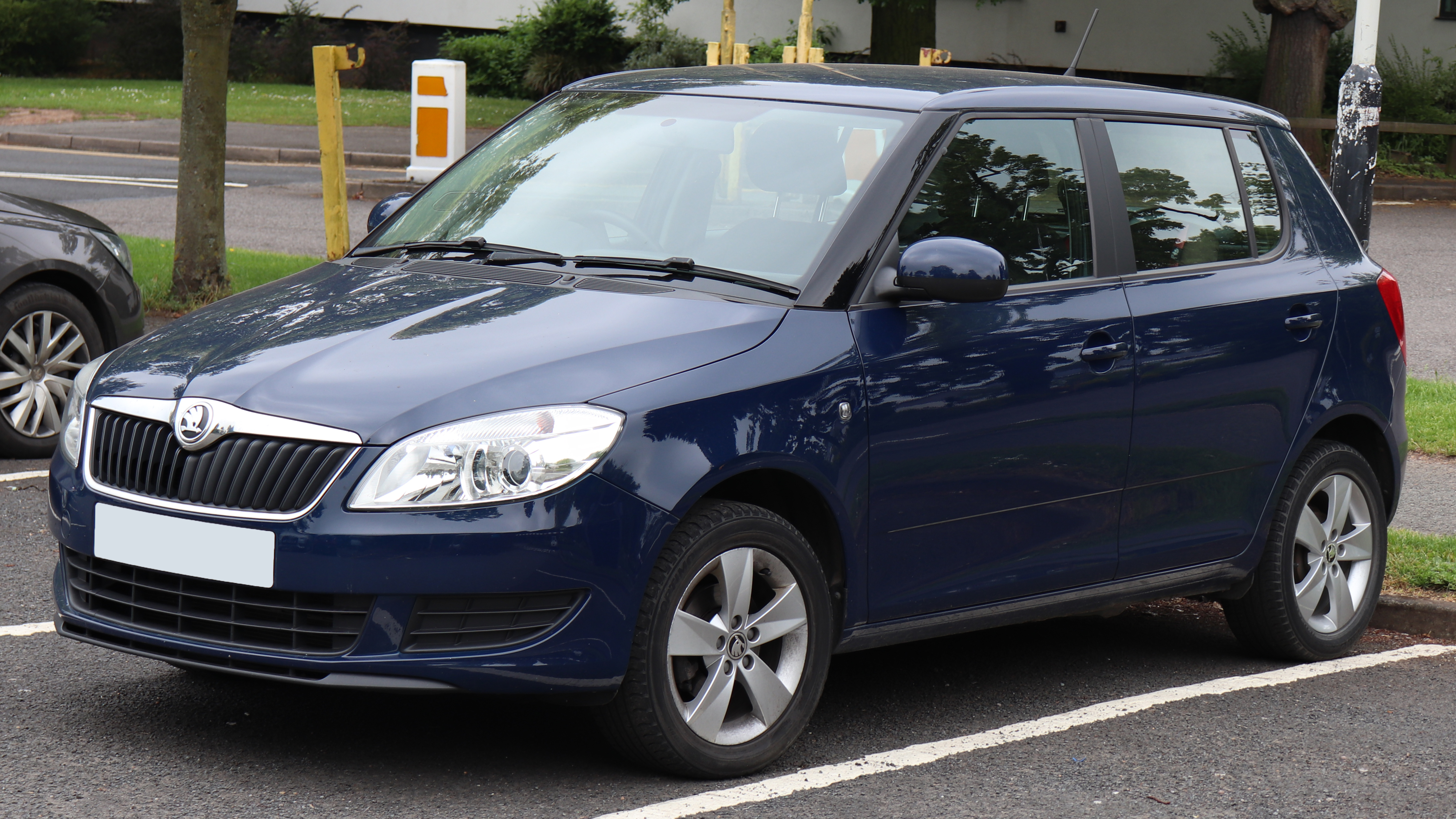 2014 Skoda Fabia SE TSi 1.2 Front Taken in Leamington Spa